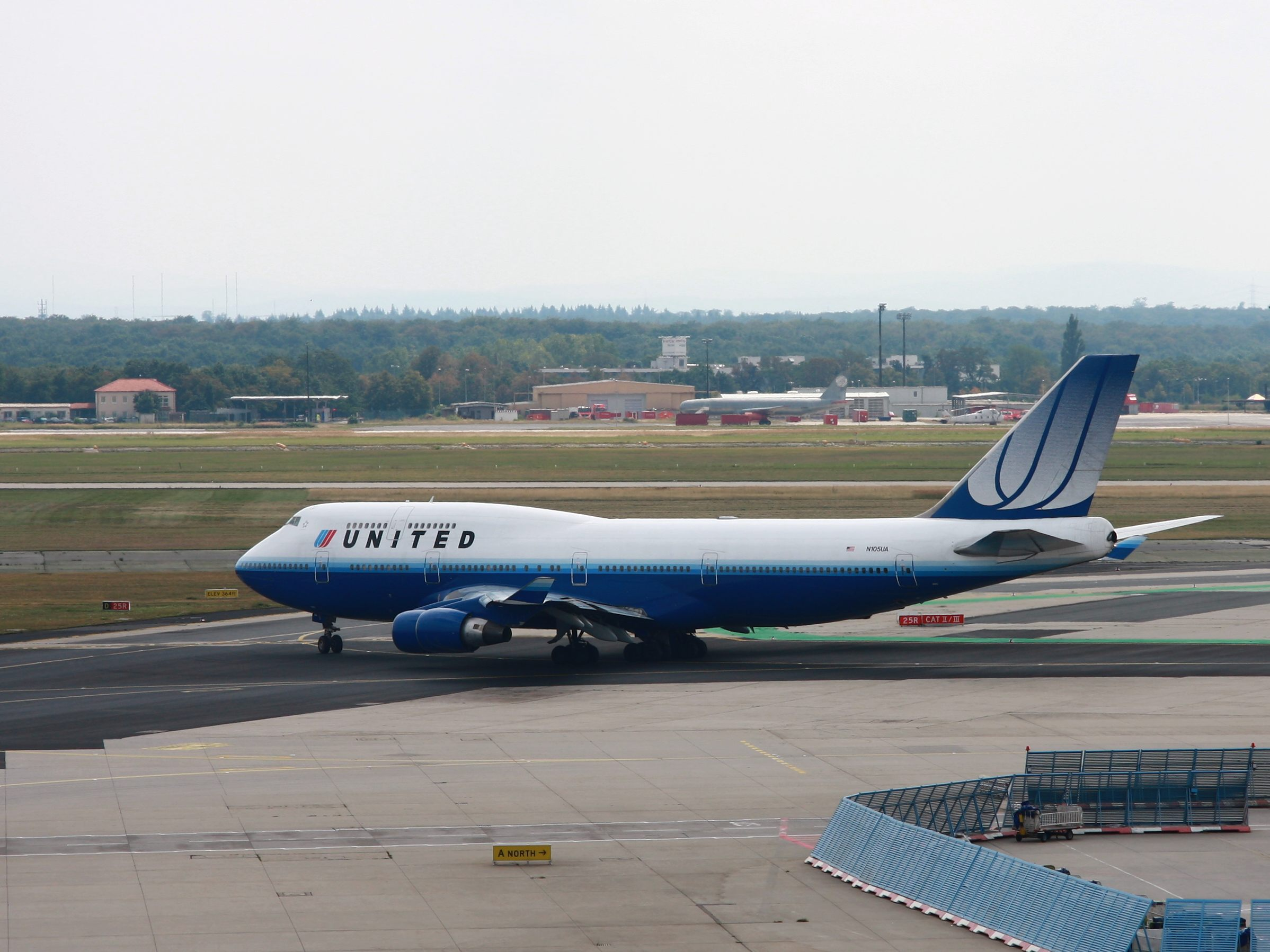 Boeing 747-400 of United Airlines